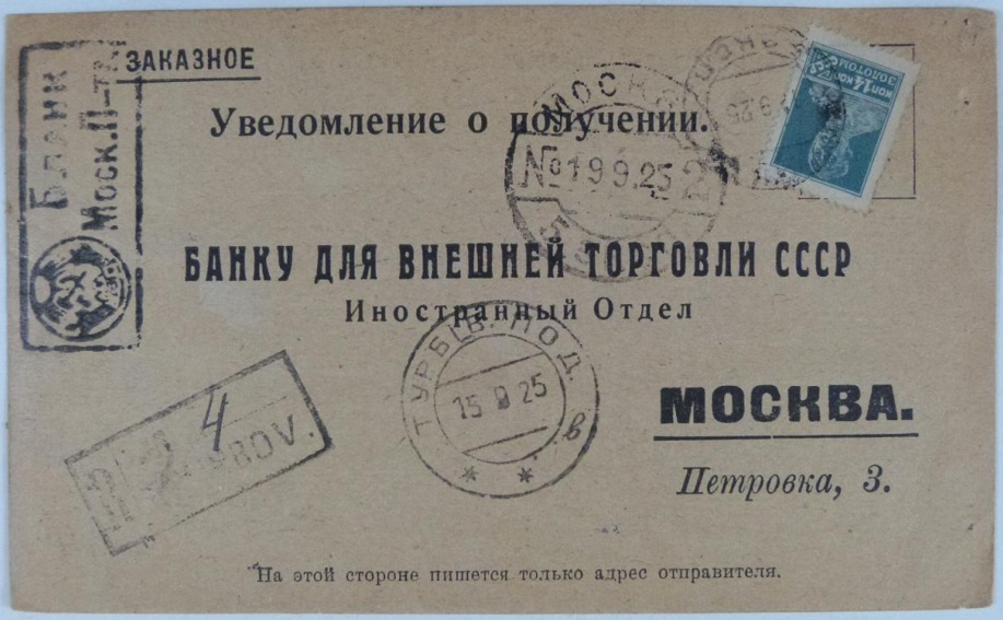 Soviet Union 1925 registered return receipt postcard to the "Vneshtorgbank of the USSR" (or "Bank for foreign trade of the USSR") in Moscow. Franked with 14k worker, backside 6k revenue. See also this article of J.L.Shneidman in Rossica Journal on these cards and their rates.